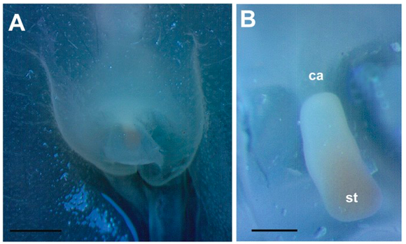 (A) The rhopalium covered by the hood is visible in its normal position in the bell margin of the medusa. (B) The hood has been removed and the photomicrograph shows the complete fixated rhopalium.